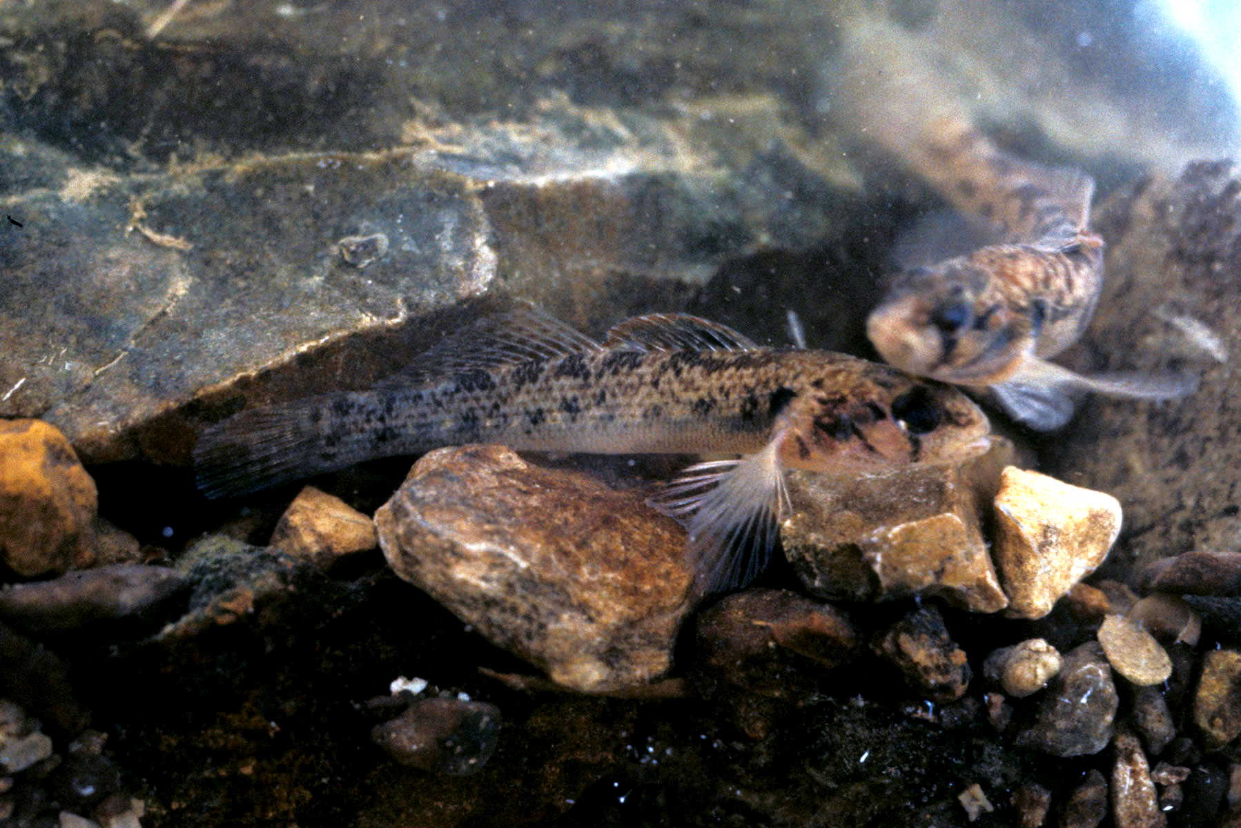 Etheostoma striatulum USFWS photo